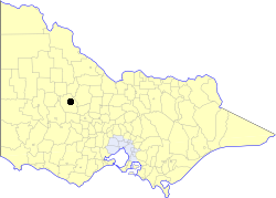 Location of the former Town of St Arnaud within Victoria.